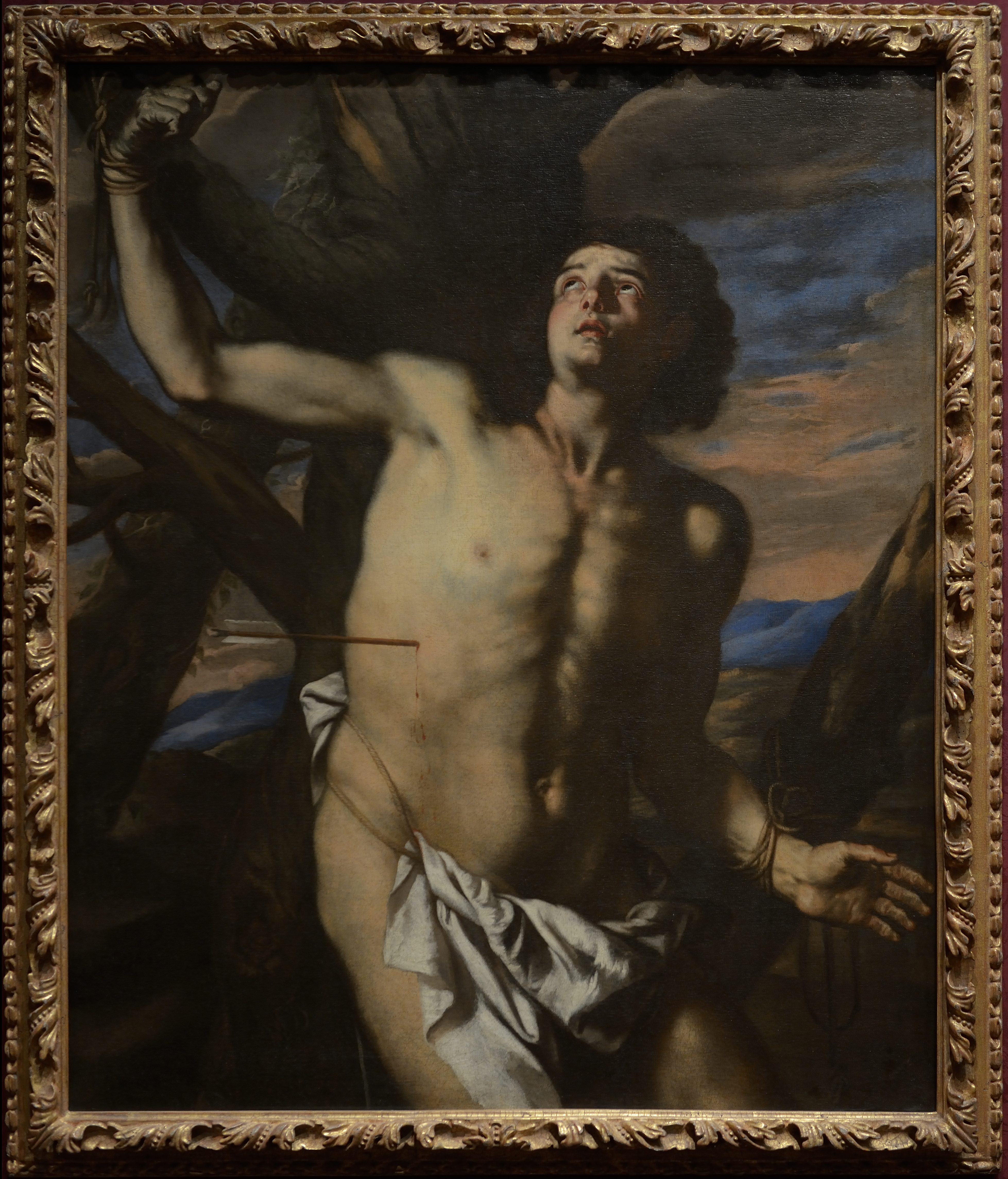 Oil Painting of Saint Sebastian